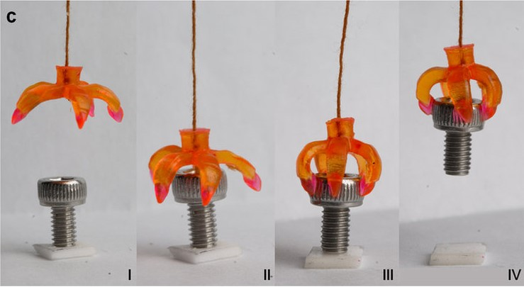 The snapshots of the process of grabbing an object.